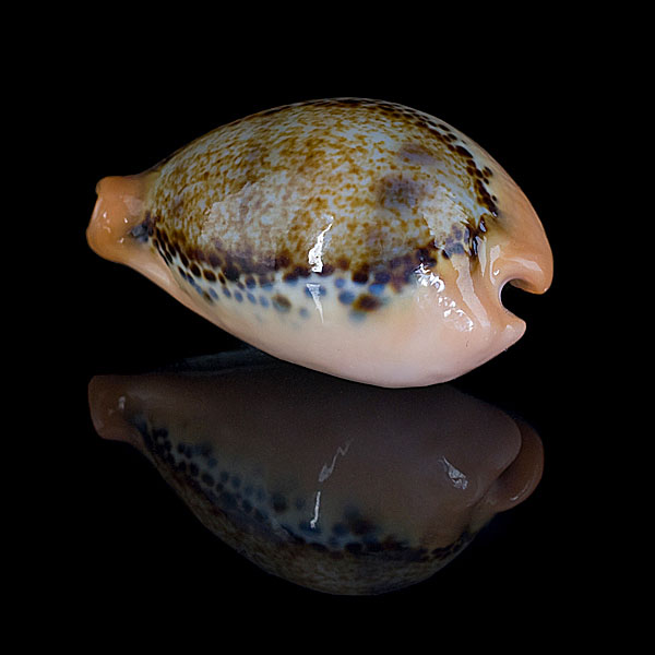 Notadusta resp. Cypraea resp. Erronea resp. Austrasiatica hungerfordi hungerfordi